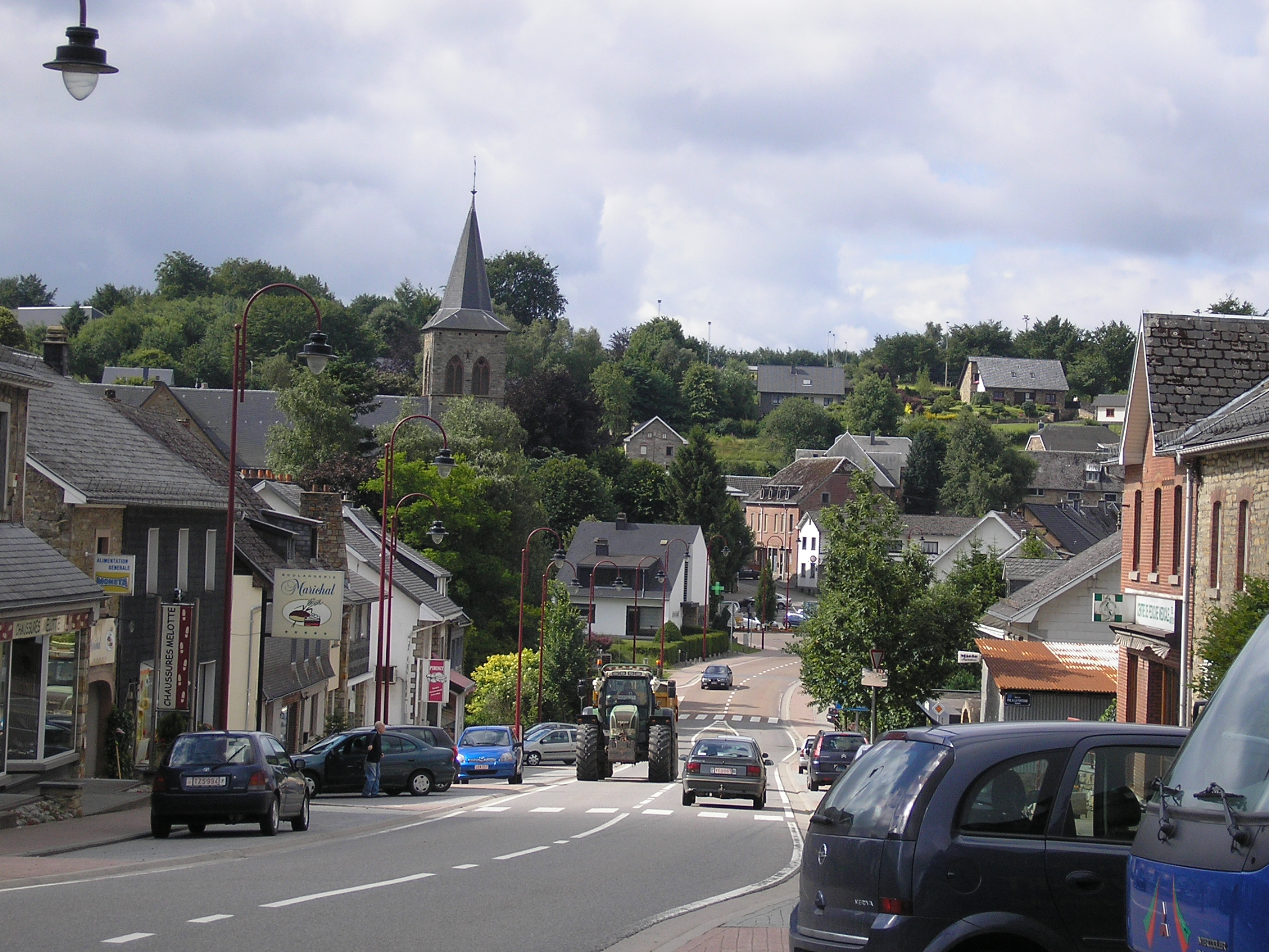 Waimes, Eastern Belgium, Main Street